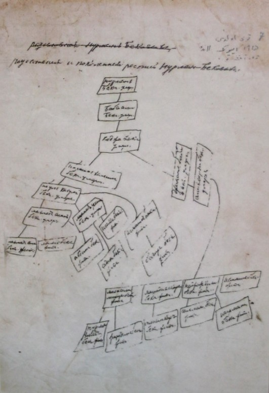 Genealogy of Narimanov written by him in 1925 in Tbilisi. House-museum of Nariman Narimanov (Tbilisi)